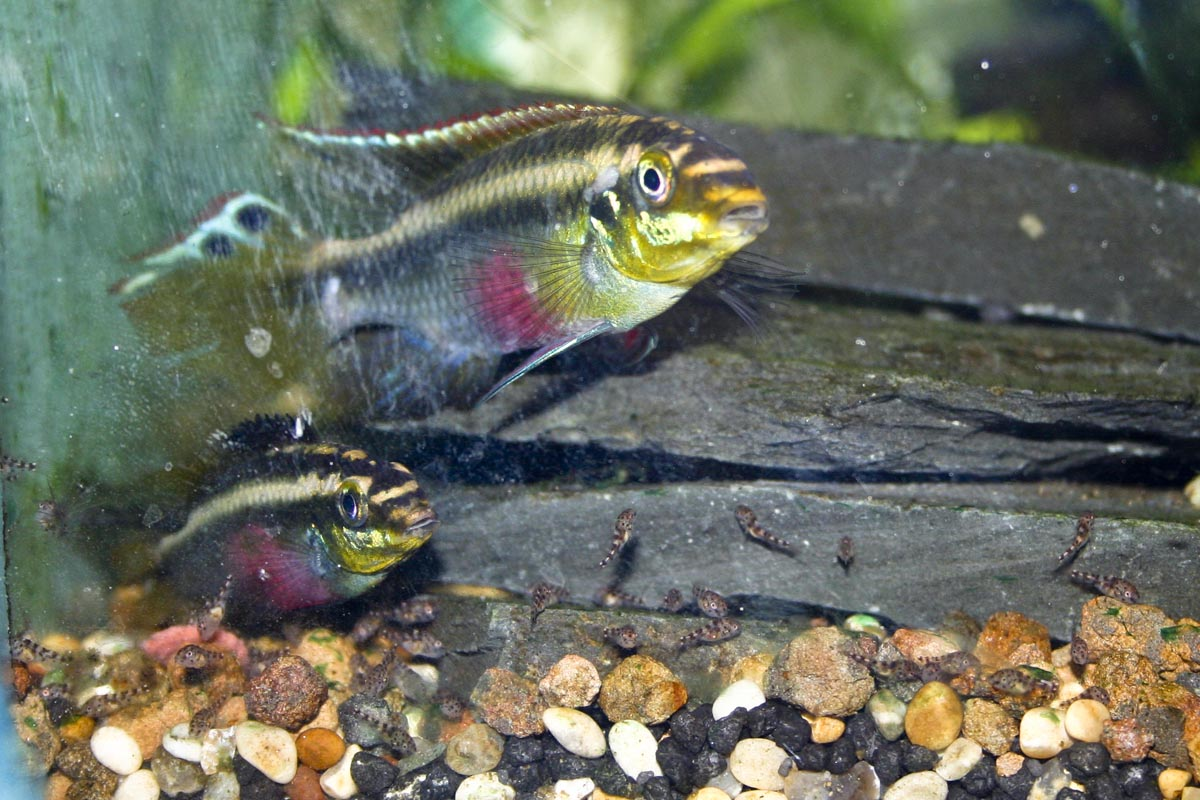 Pelvicachromis sacrimontis pair with fry